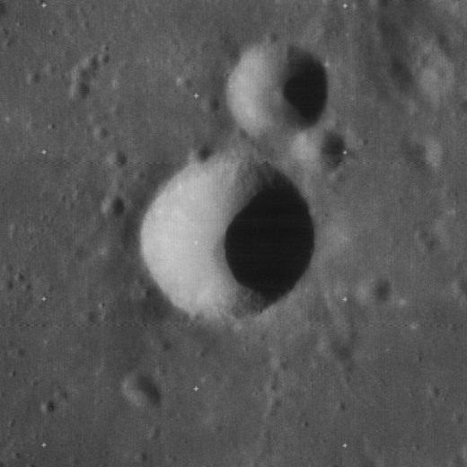 Franck, on the moon.